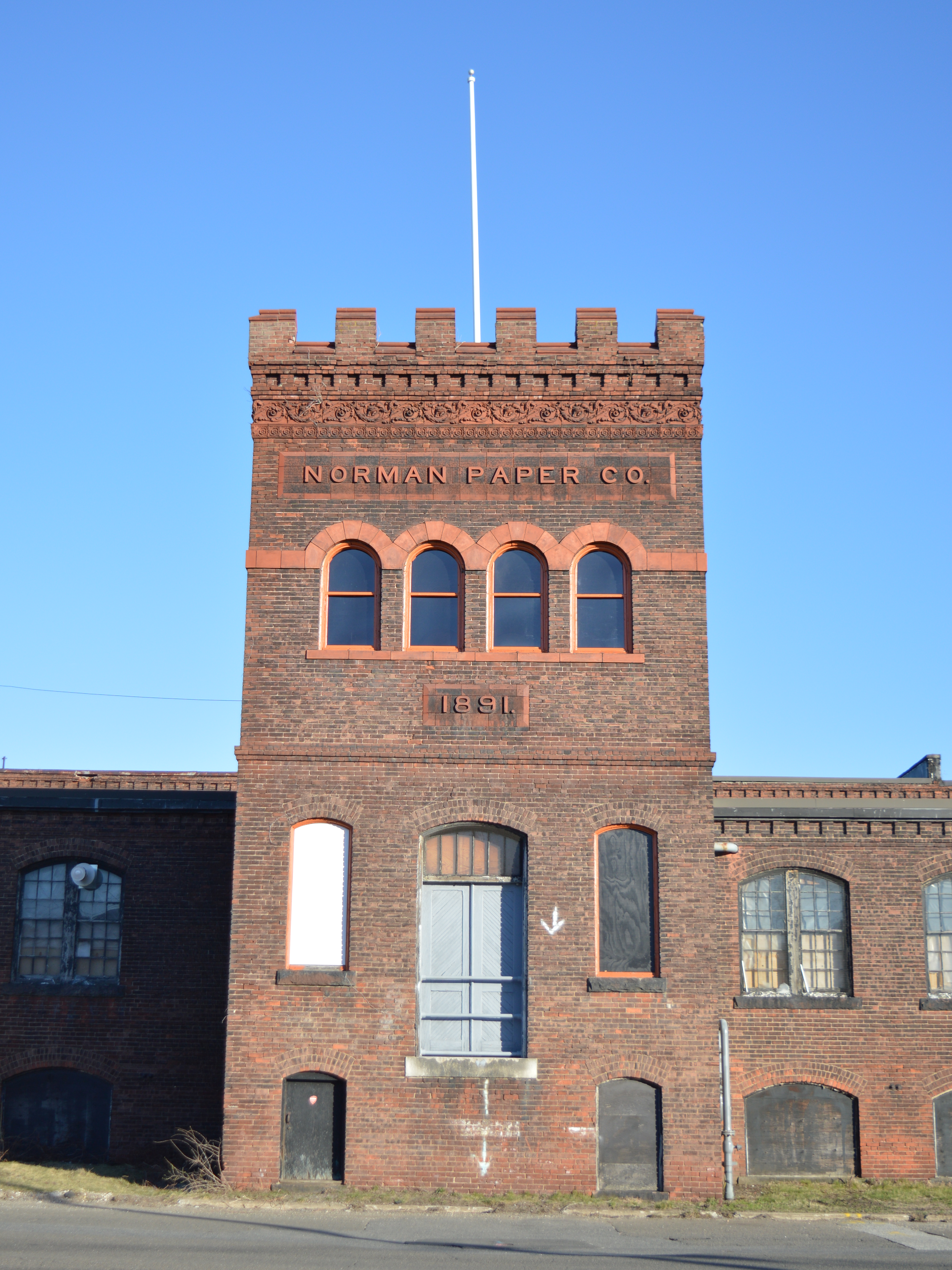 Tower of the Norman Paper Mill in Holyoke, Massachusetts, designed by D.H. & A.B. Tower and completed in 1892.